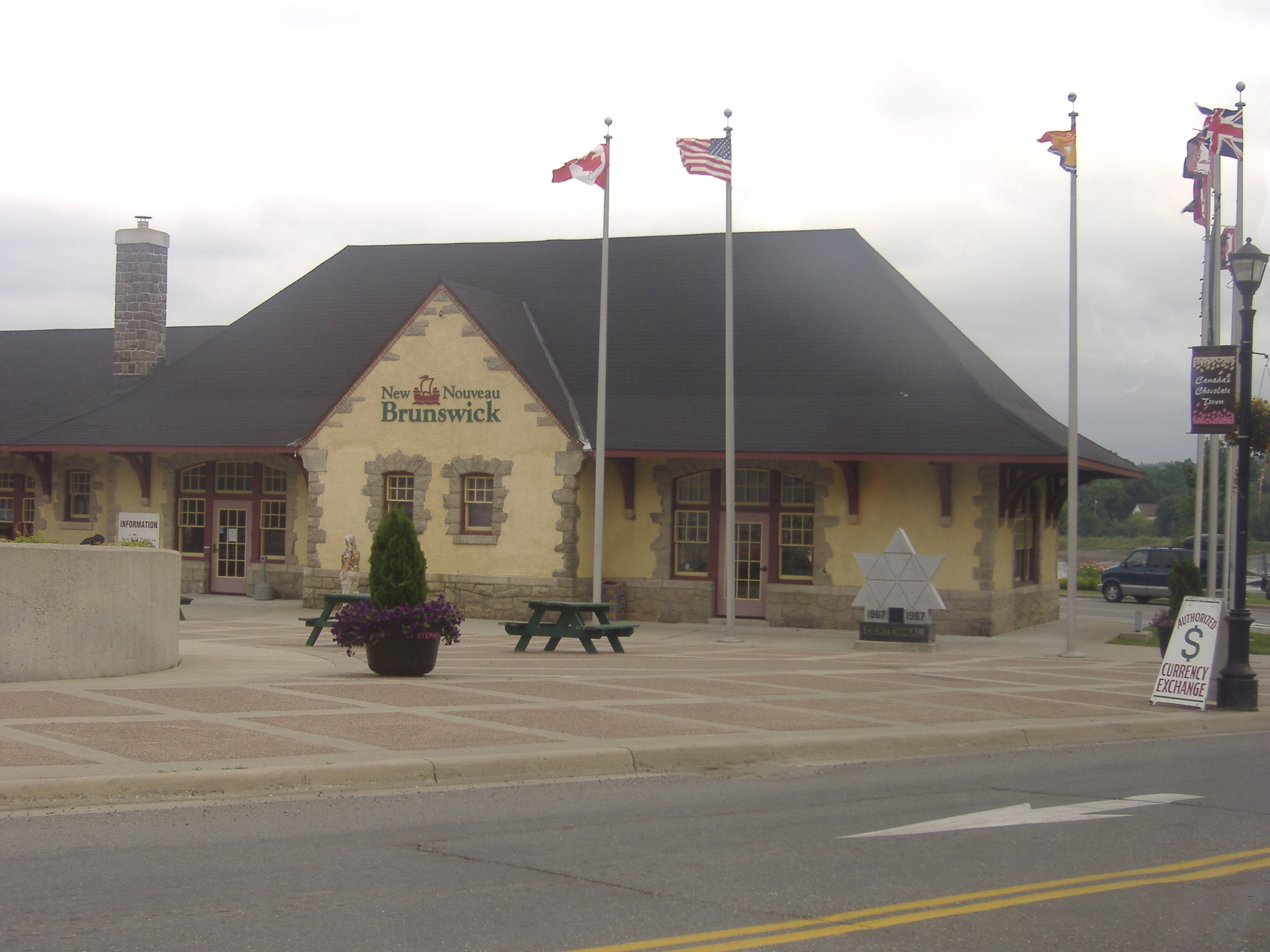 Visitor Information Centre, New Brunswick, Canada